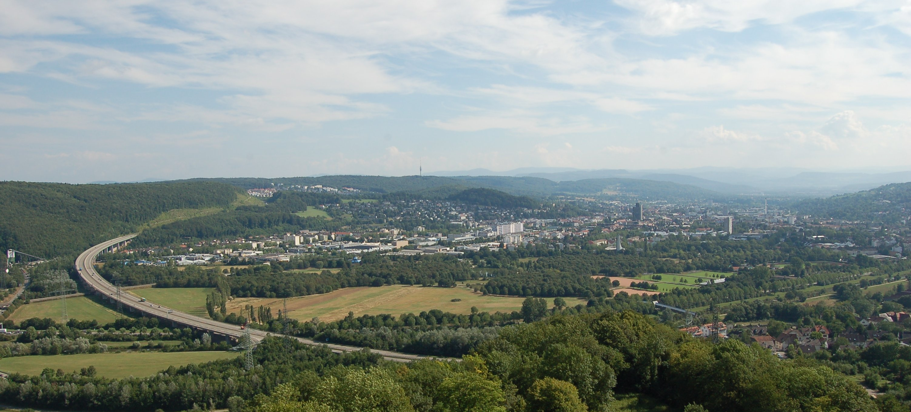 Panoramic view of Lörrach from Northwest